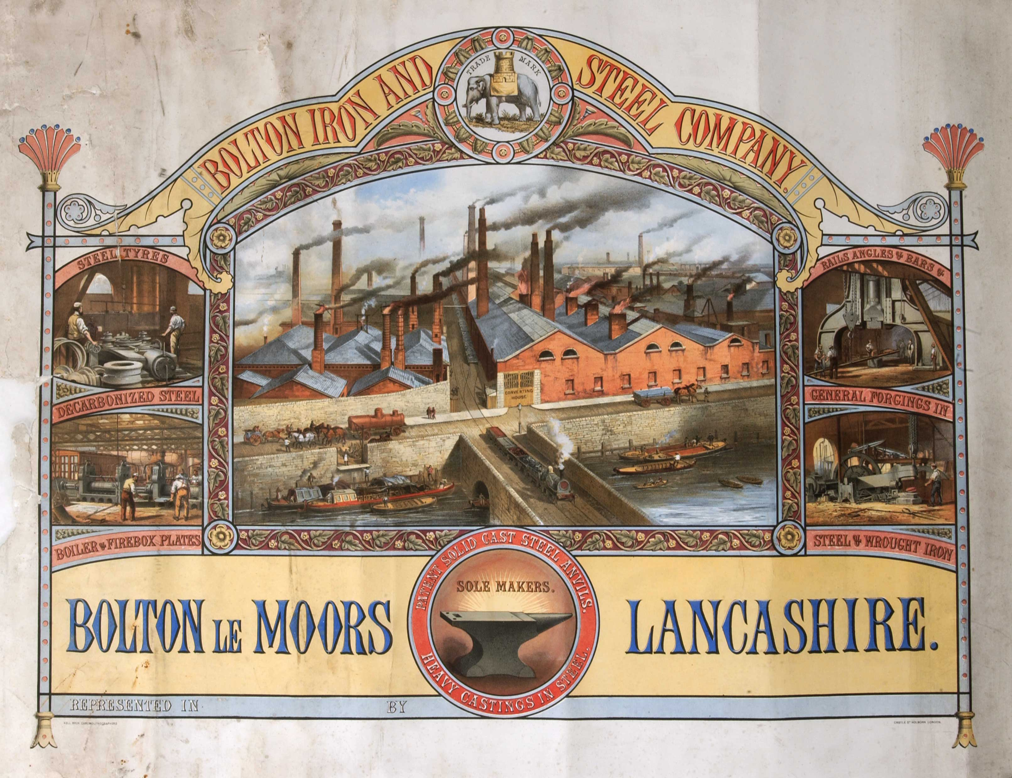 Photograph of Bolton Iron and Steel Company certificate